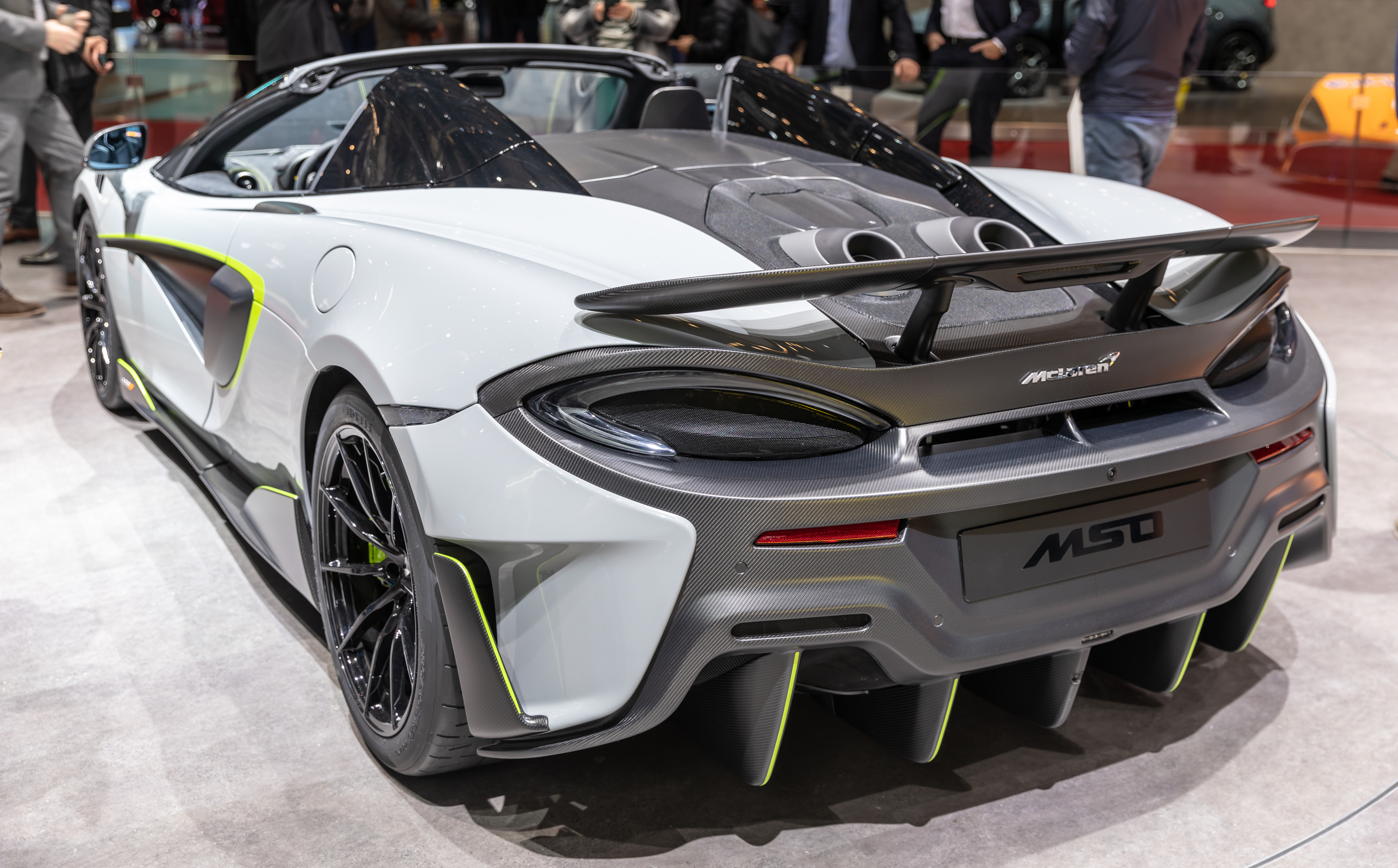 McLaren 600LT Spider at Geneva International Motor Show 2019, Le Grand-Saconnex